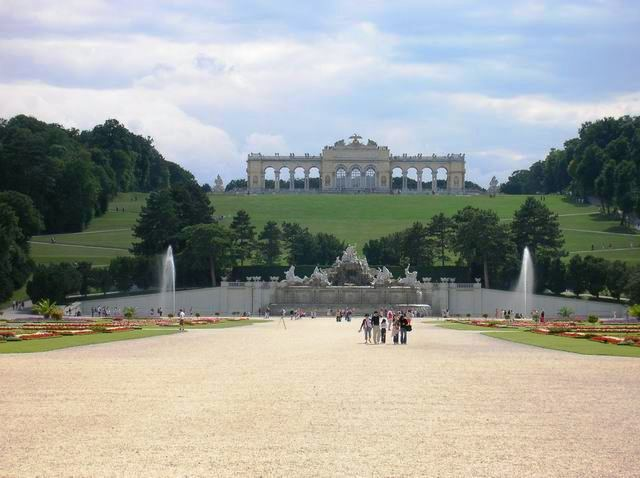 Wien - Schoenbrunn